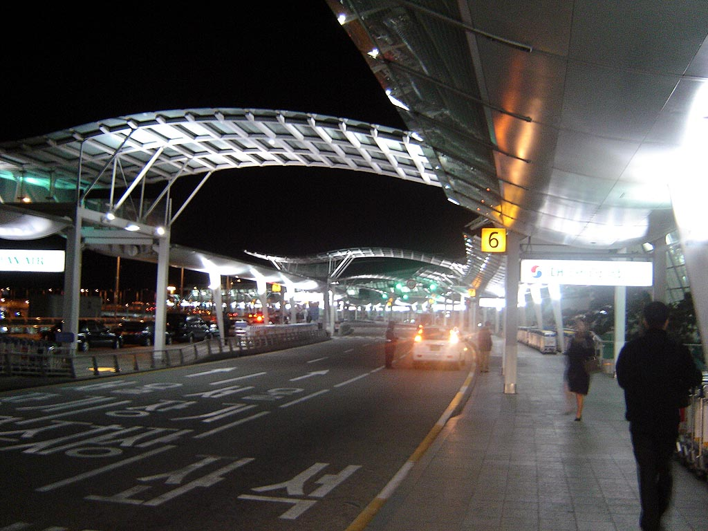 Road leading into Incheon Airport